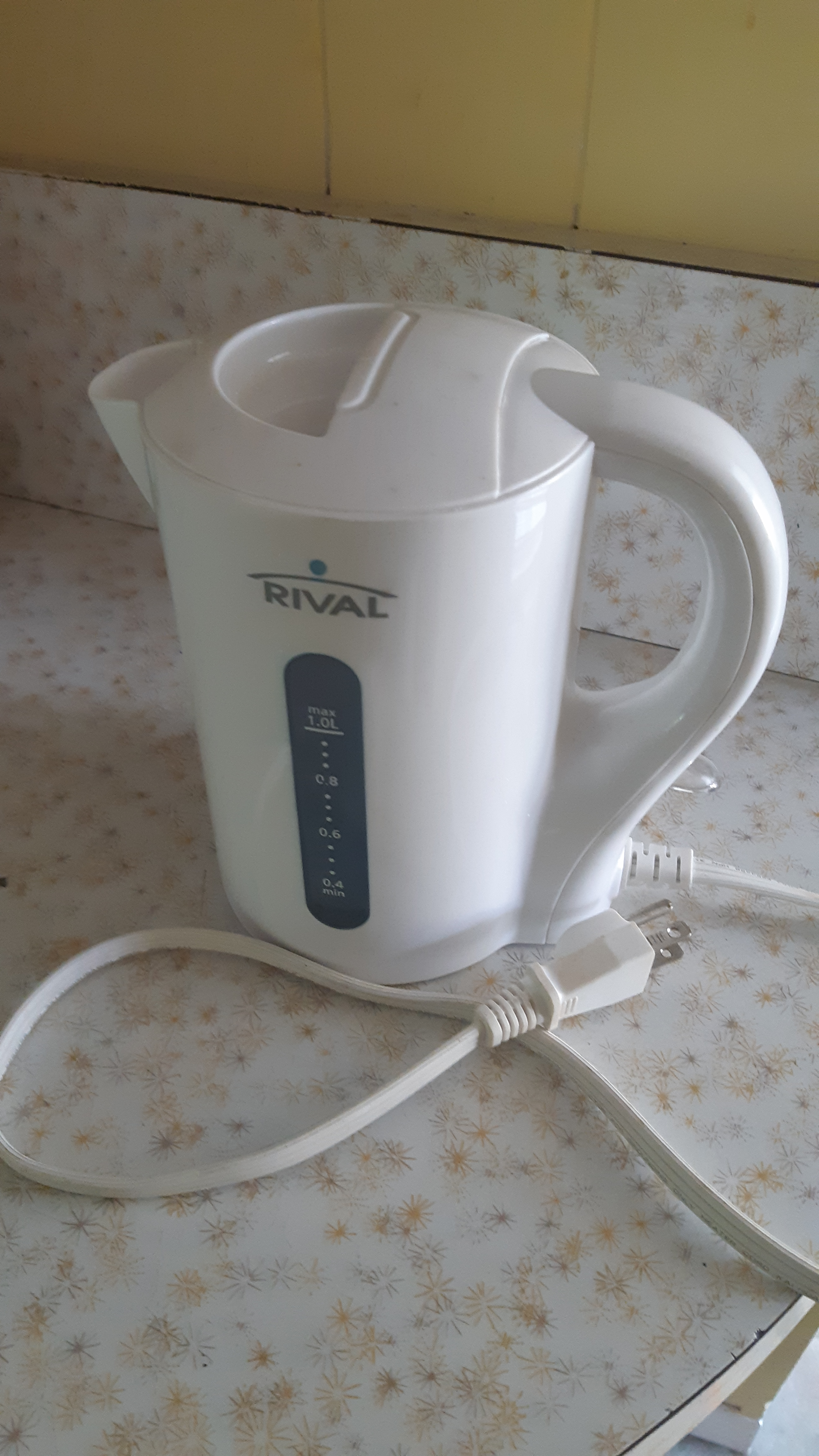 Rival Kettle